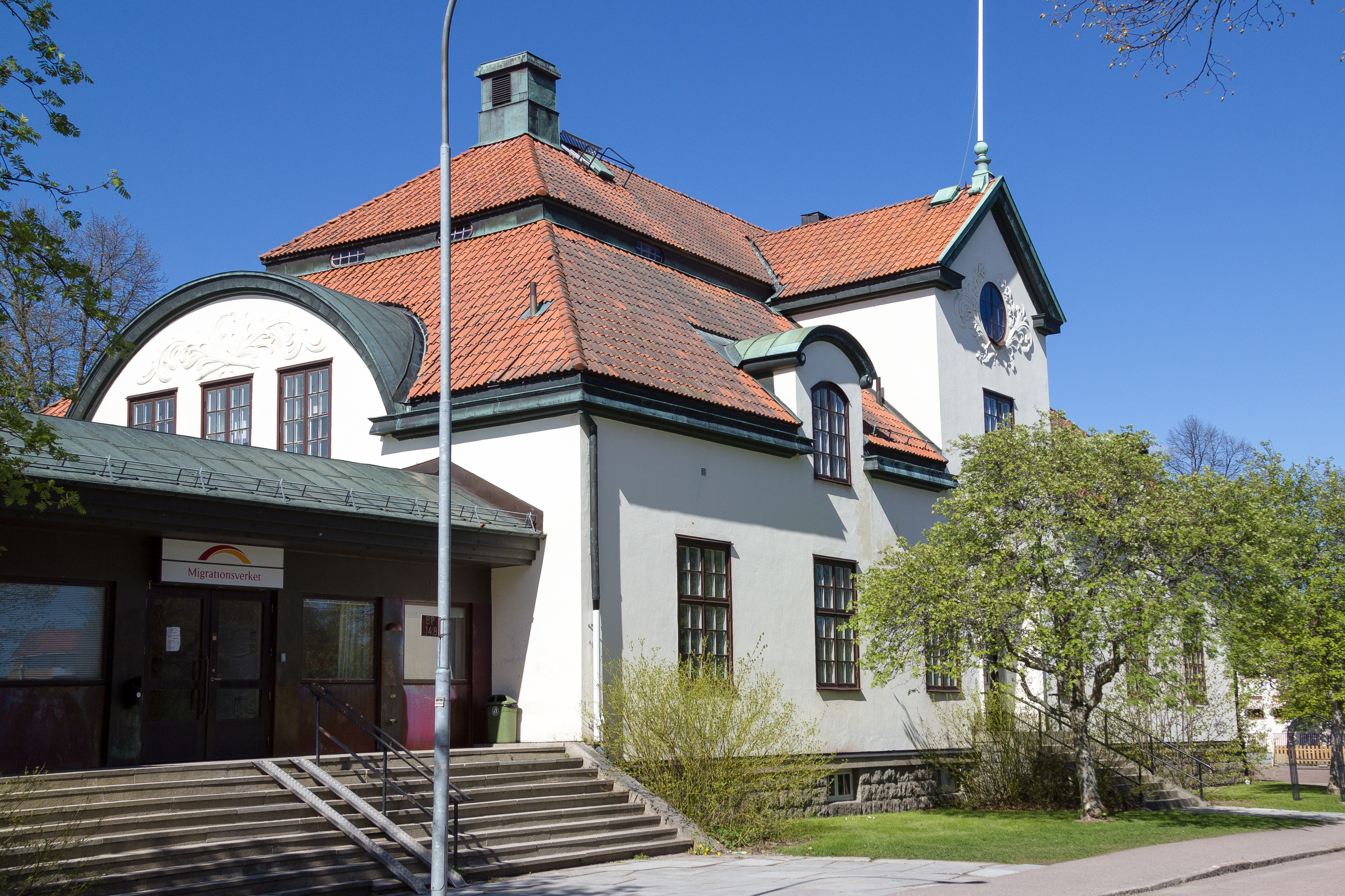 The old courthouse in Hedemora, Dalarna County, Sweden.